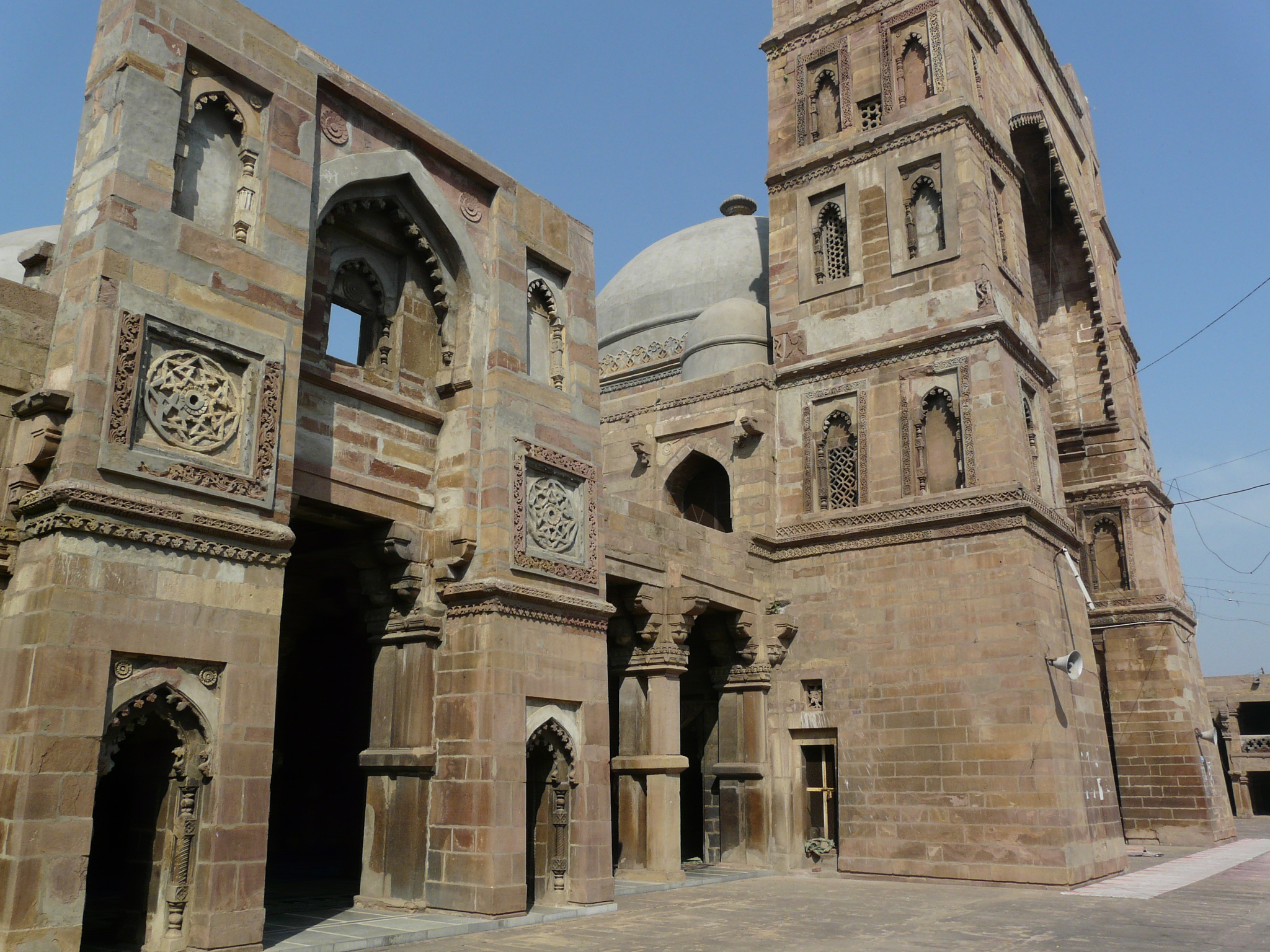 Details of the central pishtaq and side pishtaq, Atala Masjid, Jaunpur